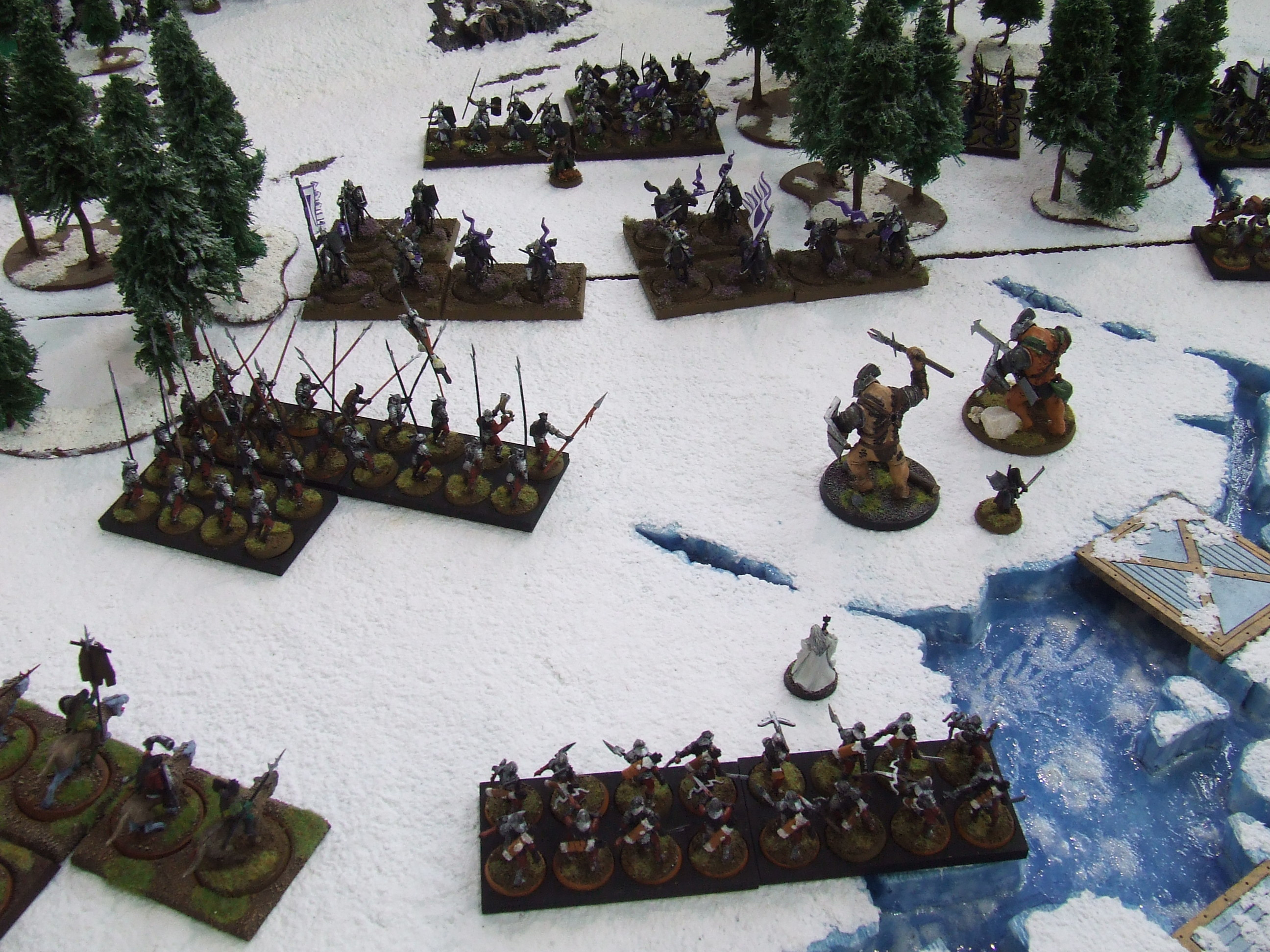 Games Day 2015, Budapest